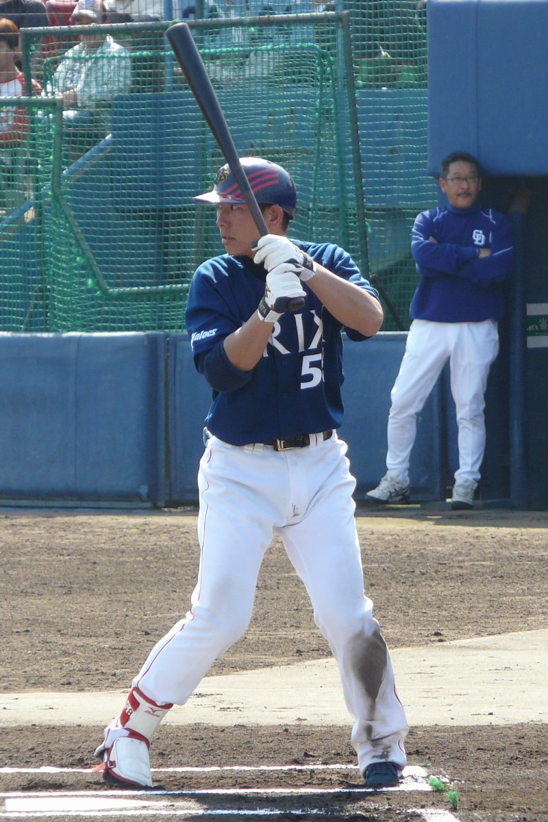 Masahiro Nagata